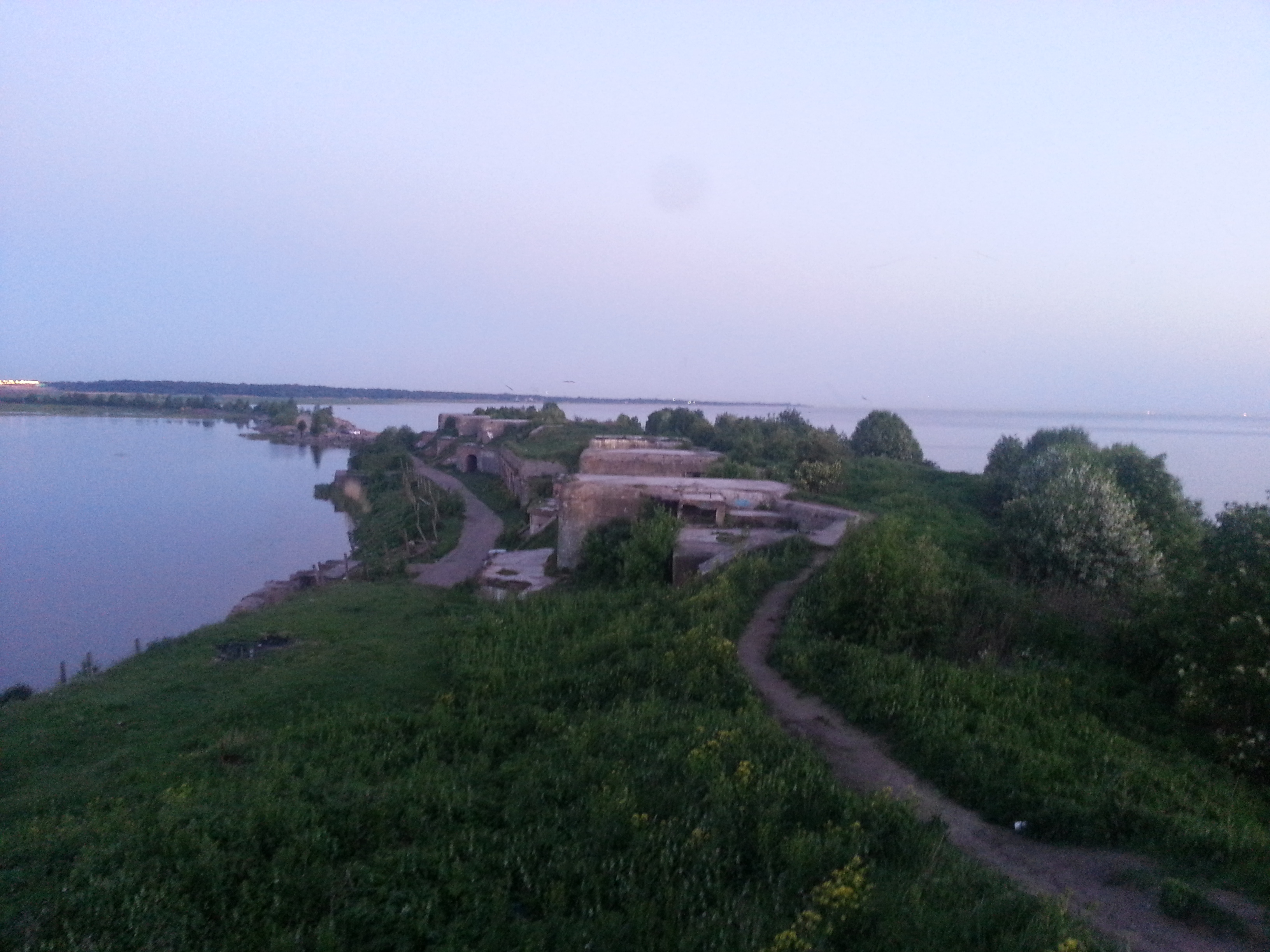 First Northern Fort of Kronstadt